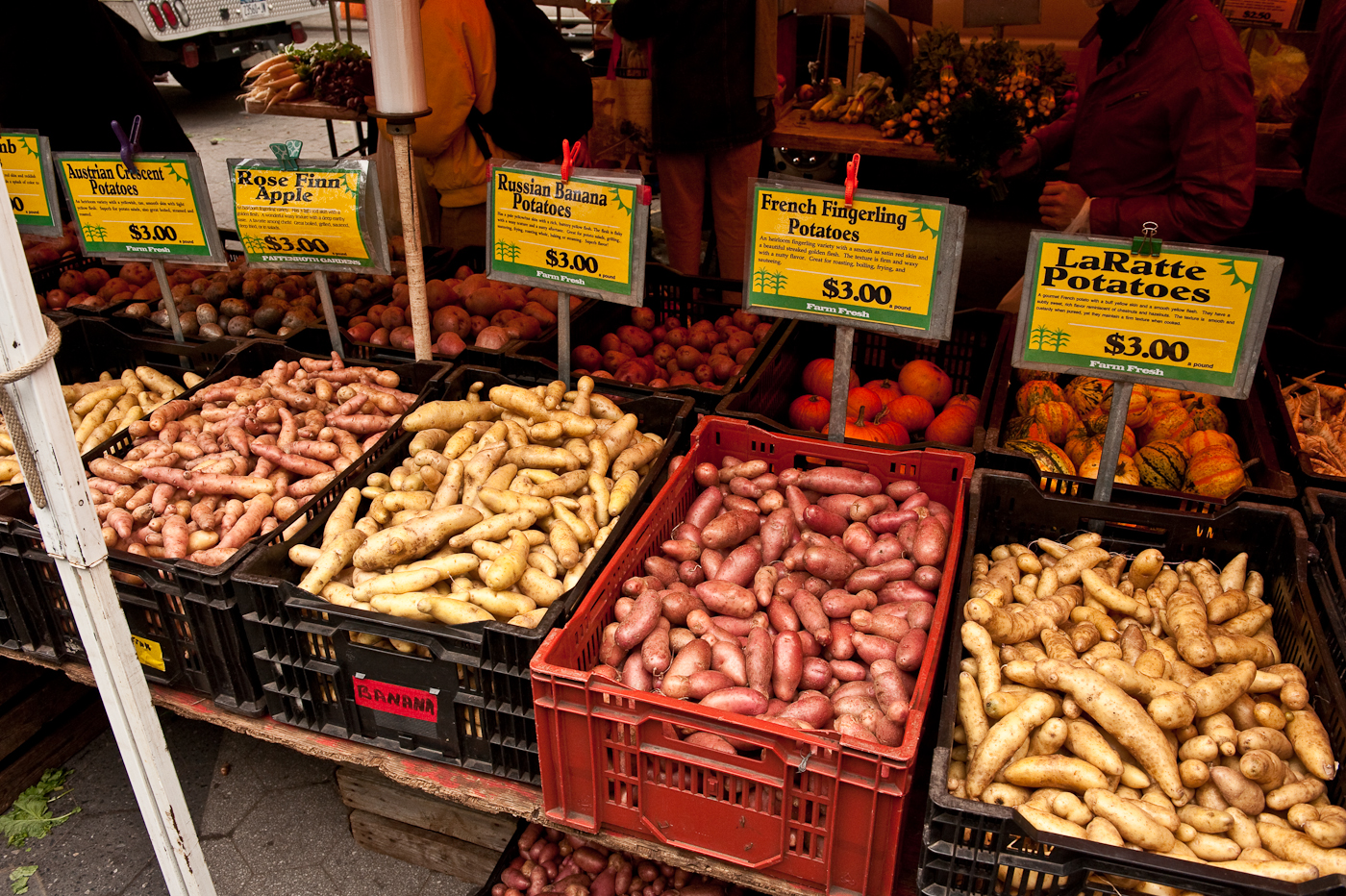 A variety of exotic potatoes, Union Square Greenmarket, New York City